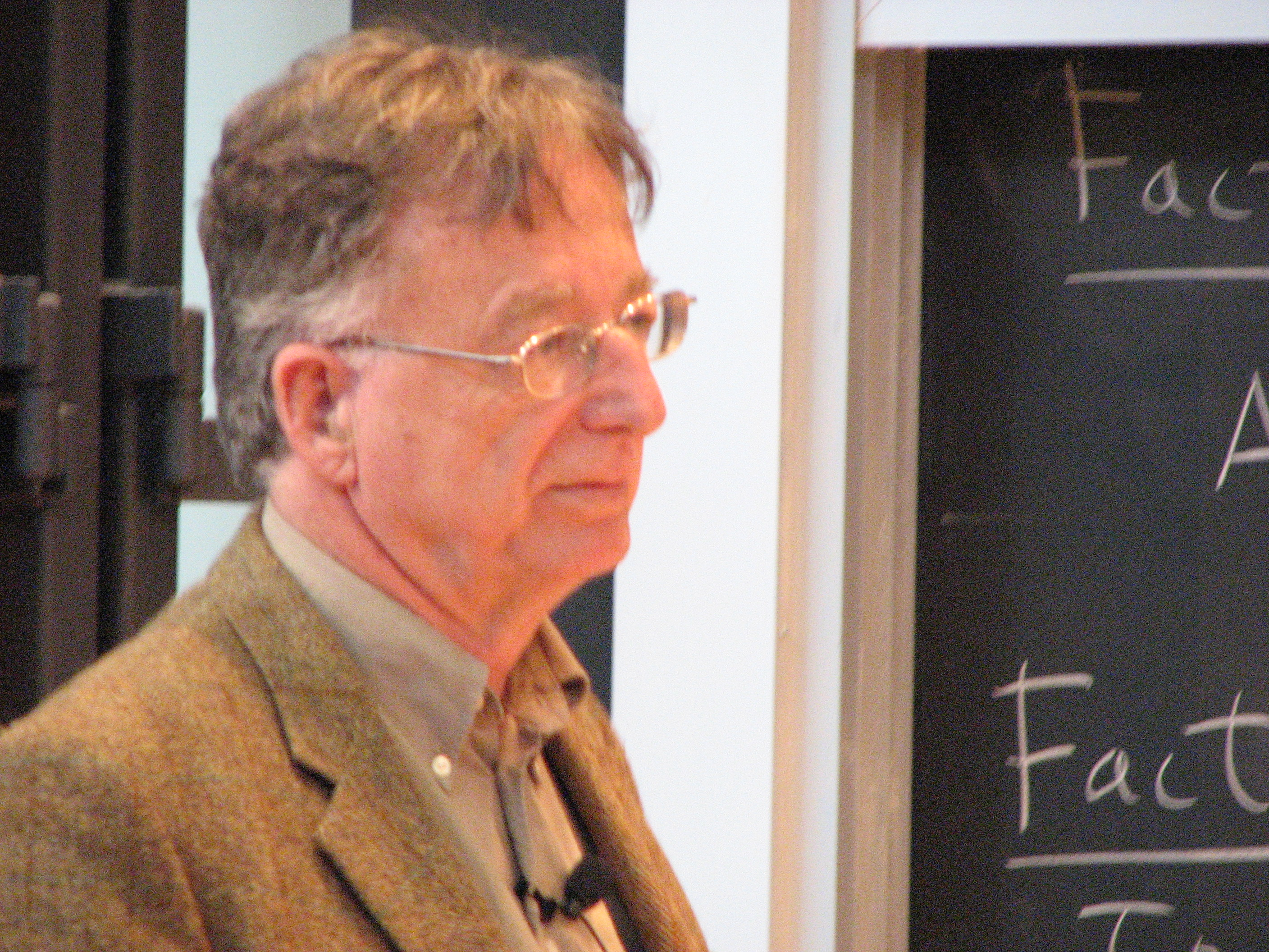 Dennis Sullivan giving a lecture at MSRI in May 2007